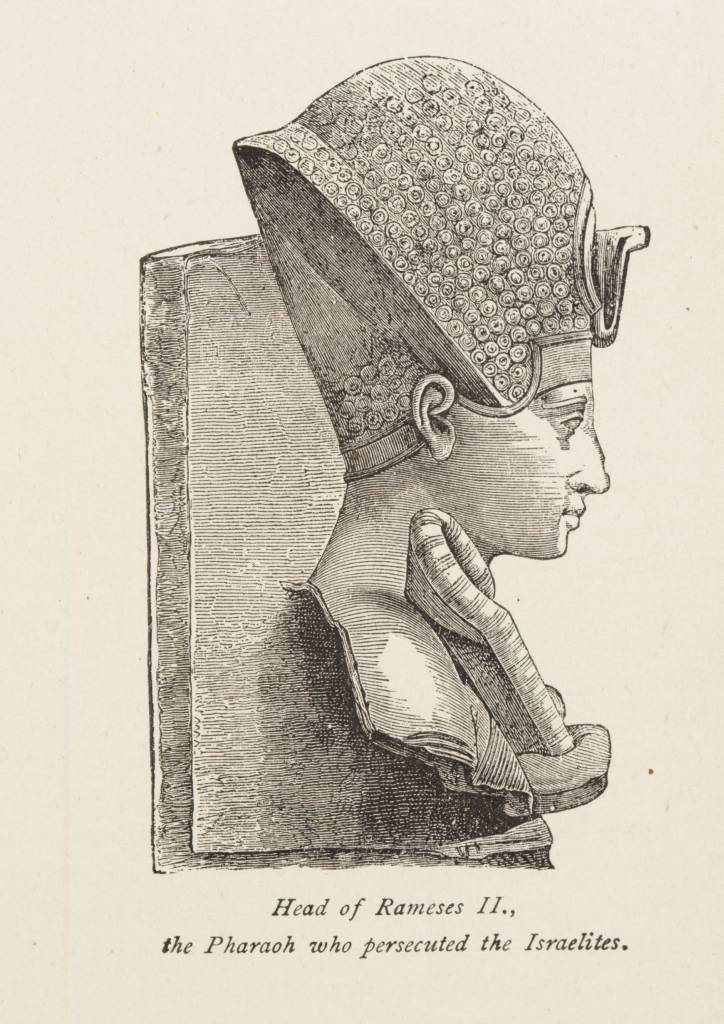 A drawing of a statue of Rameses II. He holds a scepter and also wears an incredibly detailed crown.